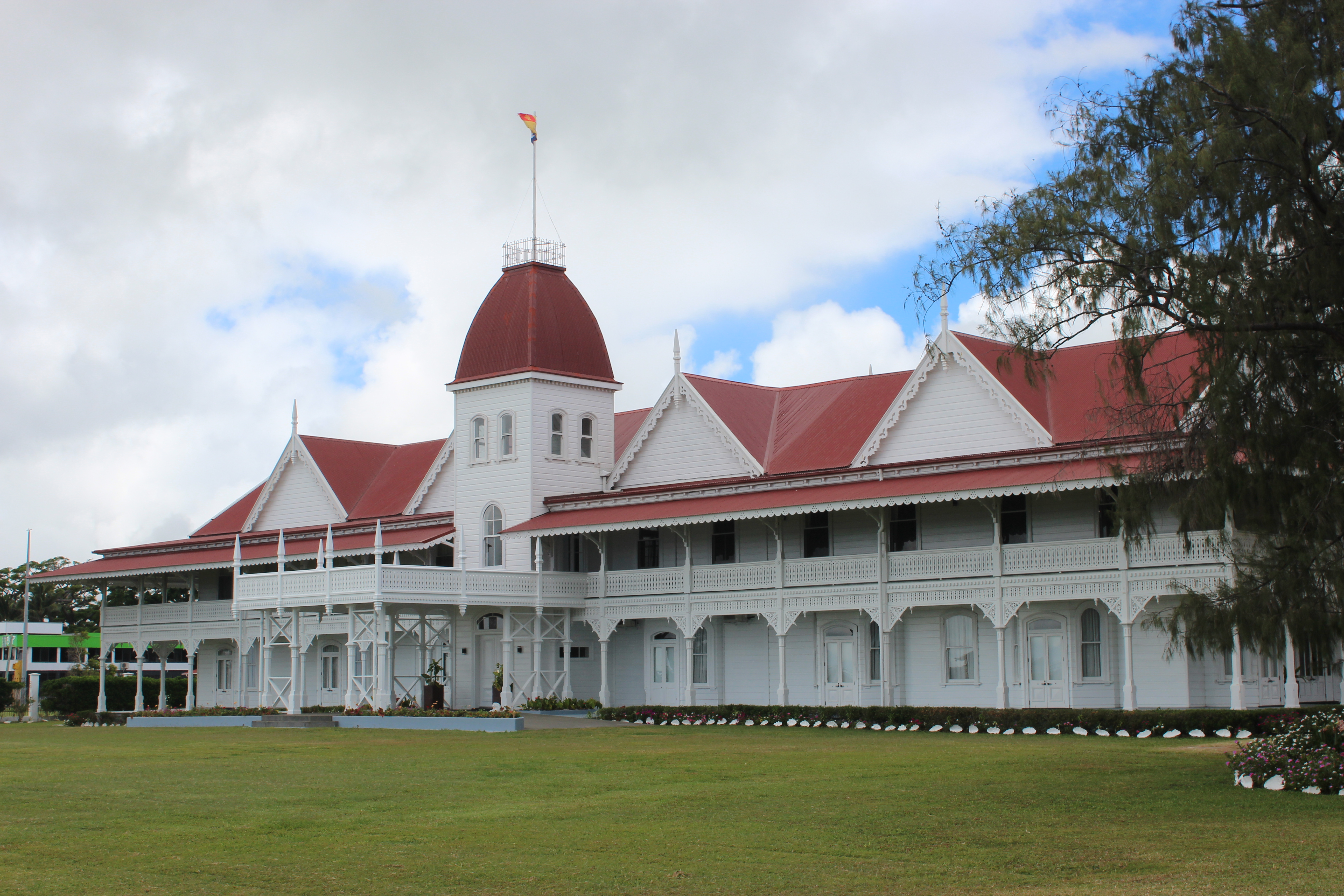 Royal Palace, Nuku'alofa, Tonga